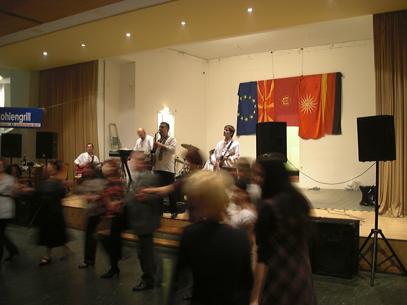 ethnic Macedonian diaspora in Berlin, Germany (13th december 2008); celebrating the day of the patron of their church community "Sv. Kliment Ohridski"